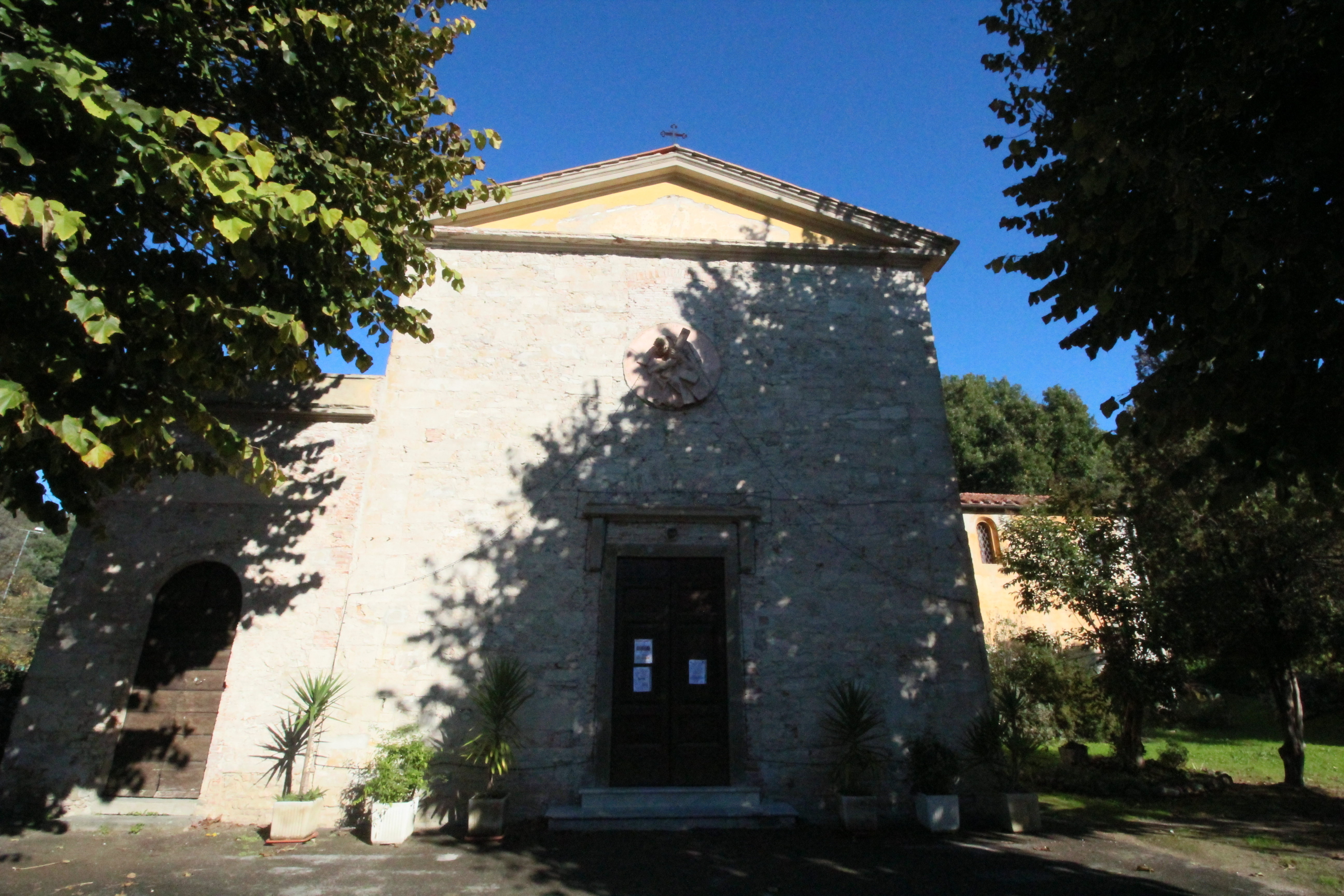 Church Sant’Andrea, in Cucigliana, hamlet of Vicopisano, Province of Pisa, Tuscany, Italy.